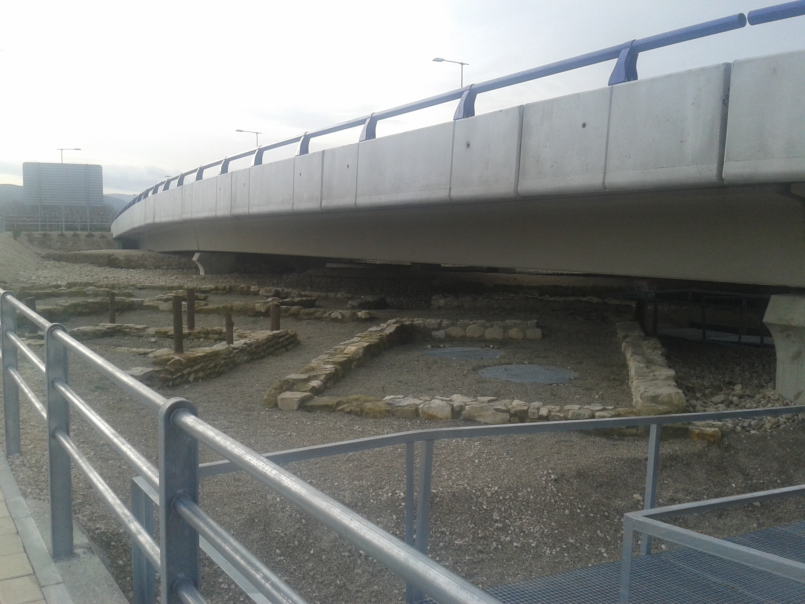 Deóbriga archeological syte, Miranda de Ebro, Spain.